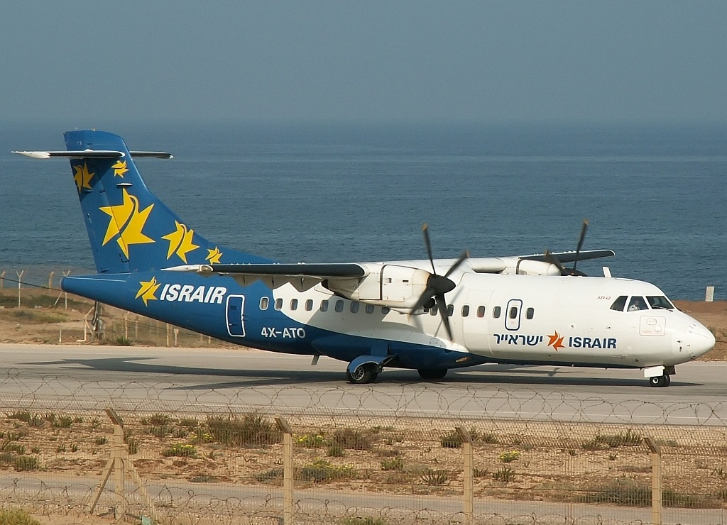 Israir 4X-ATO at Sde Dov